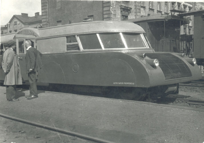 The Austro-Daimler Luxtorpeda at Krakow station.